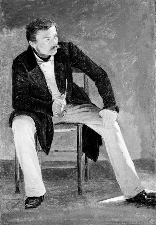 Portrait of Constantin Hansen